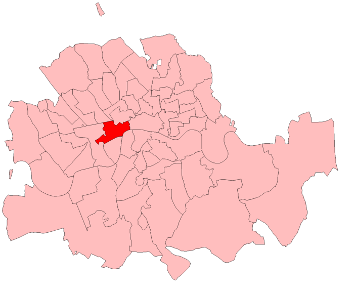 A map of Strand constituency within the Metropolitan Board of Works area, as it existed from 1885 to 1918.